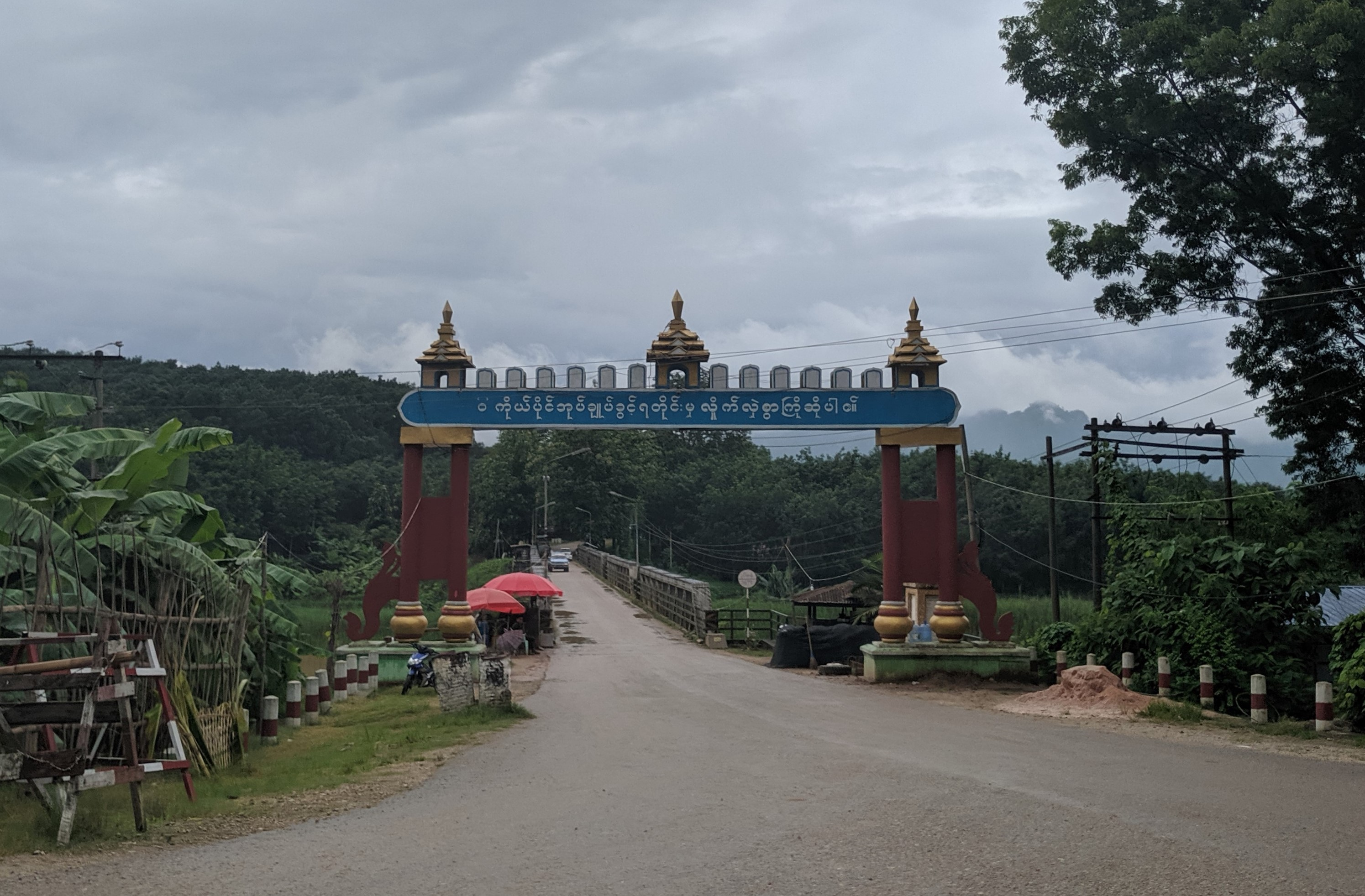 Entrance of Wa Self-Administered Division, Northern Shan State, Myanmar